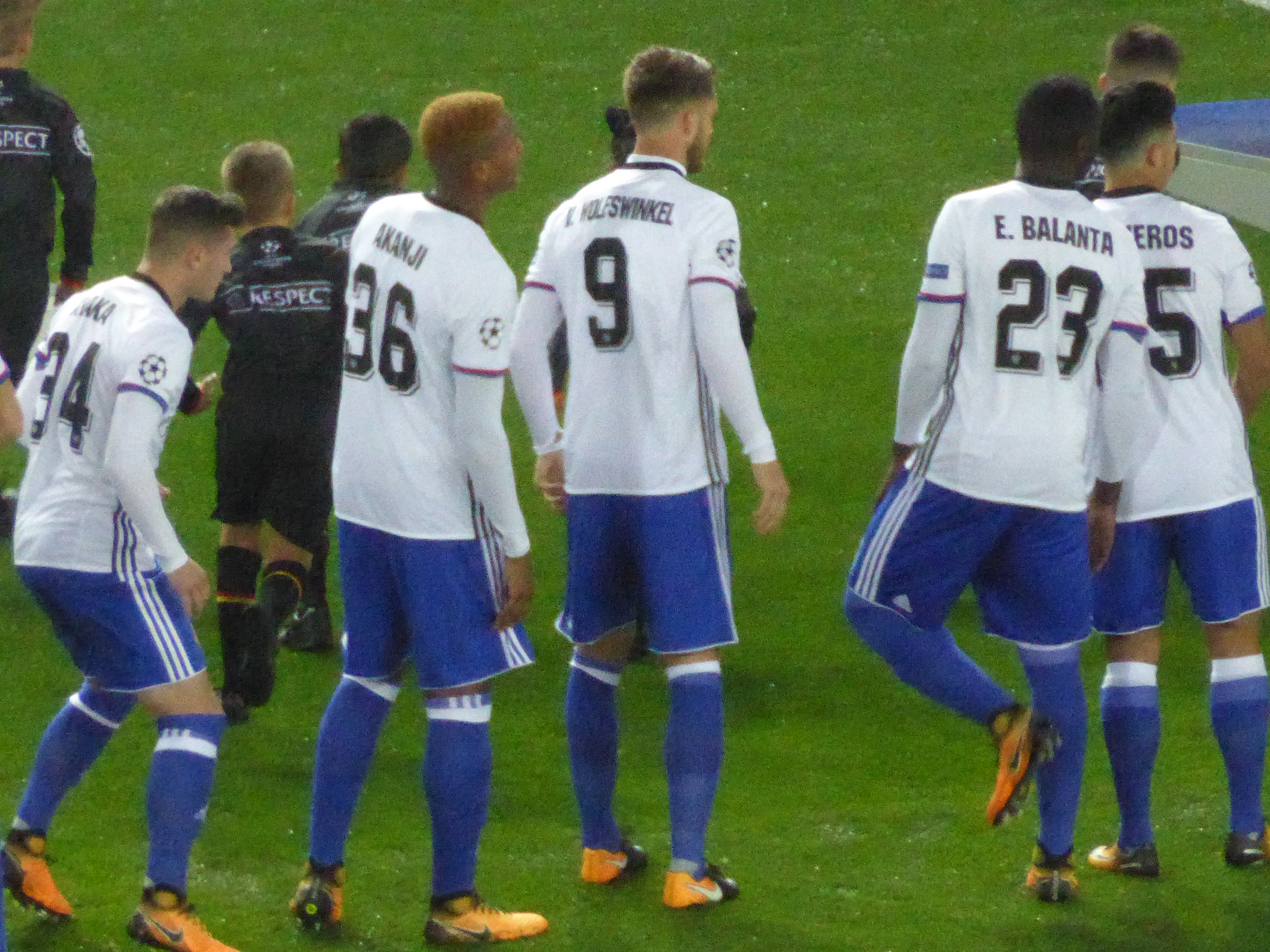 Manchester United v FC Basel (3-0), UEFA Champions League, Old Trafford, Manchester, Greater Manchester, England, 12 September 2017